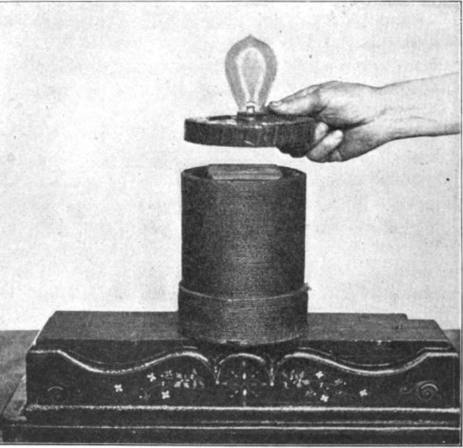 An early example of an incandescent light powered wirelessly by electromagnetic induction, in 1910. The large cylinder, bottom consists of an electromagnet, a coil of wire with alternating current through it. It creates an alternating magnetic field. The lamp is attached to another coil of wire, which is held above the magnet's pole. The time varying magnetic field induces an alternating current in the second coil, which lights the lamp. The lamp appears to be an original Edison lamp with a carbon filament.